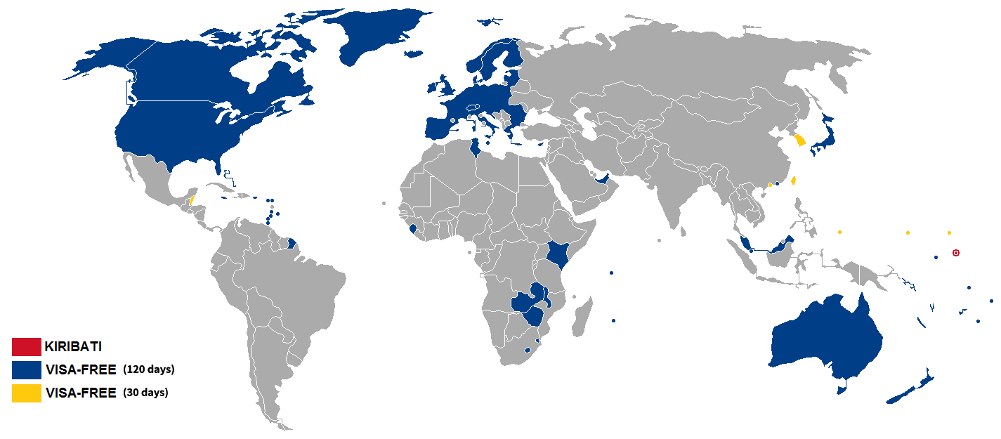 Visa policy of Kiribati Kiribati Visa exemption for 120 days Visa exemption for 30 days